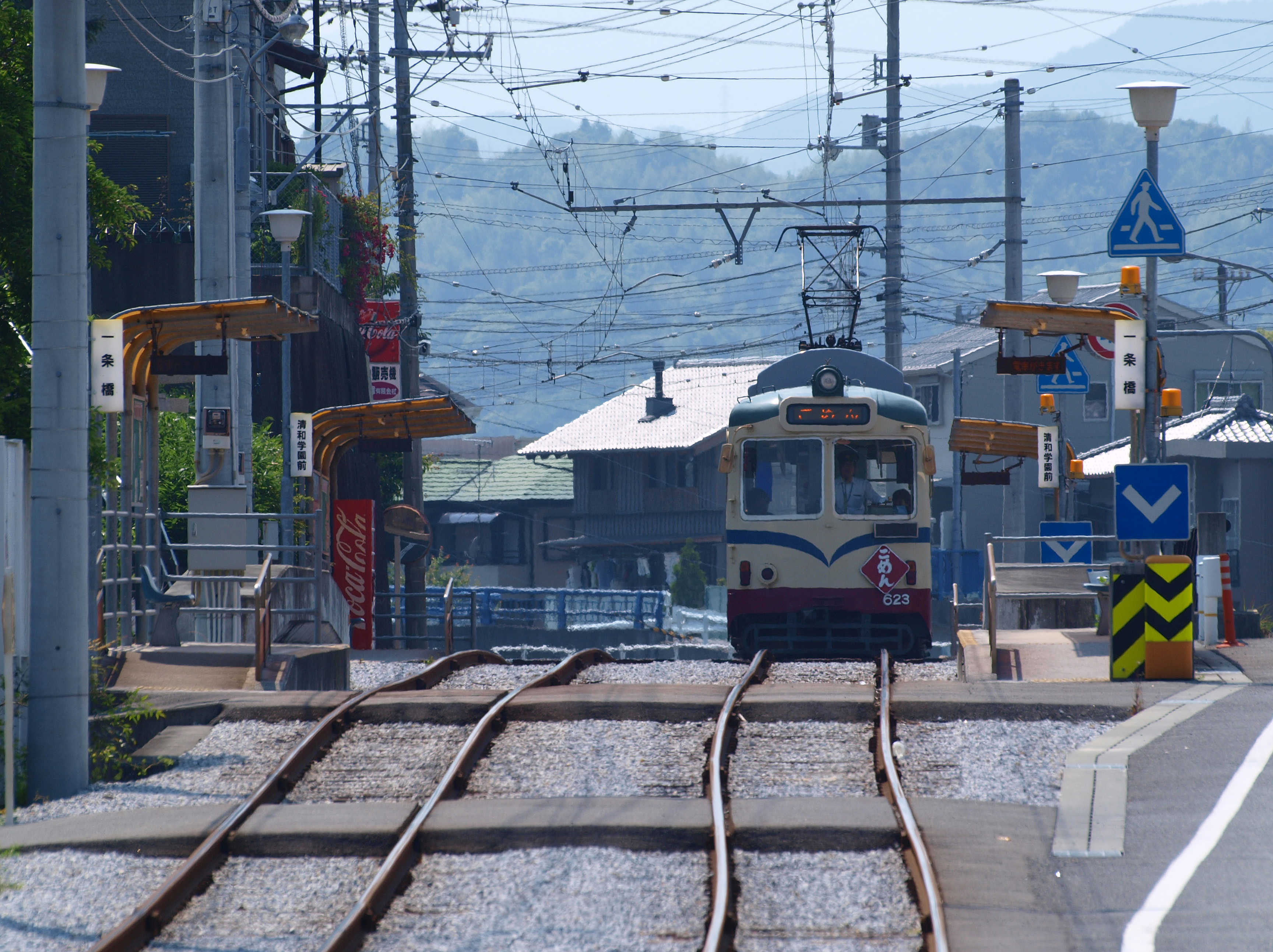 Tosa Electric Railway Ichijyobashi station, Kochi, Japan